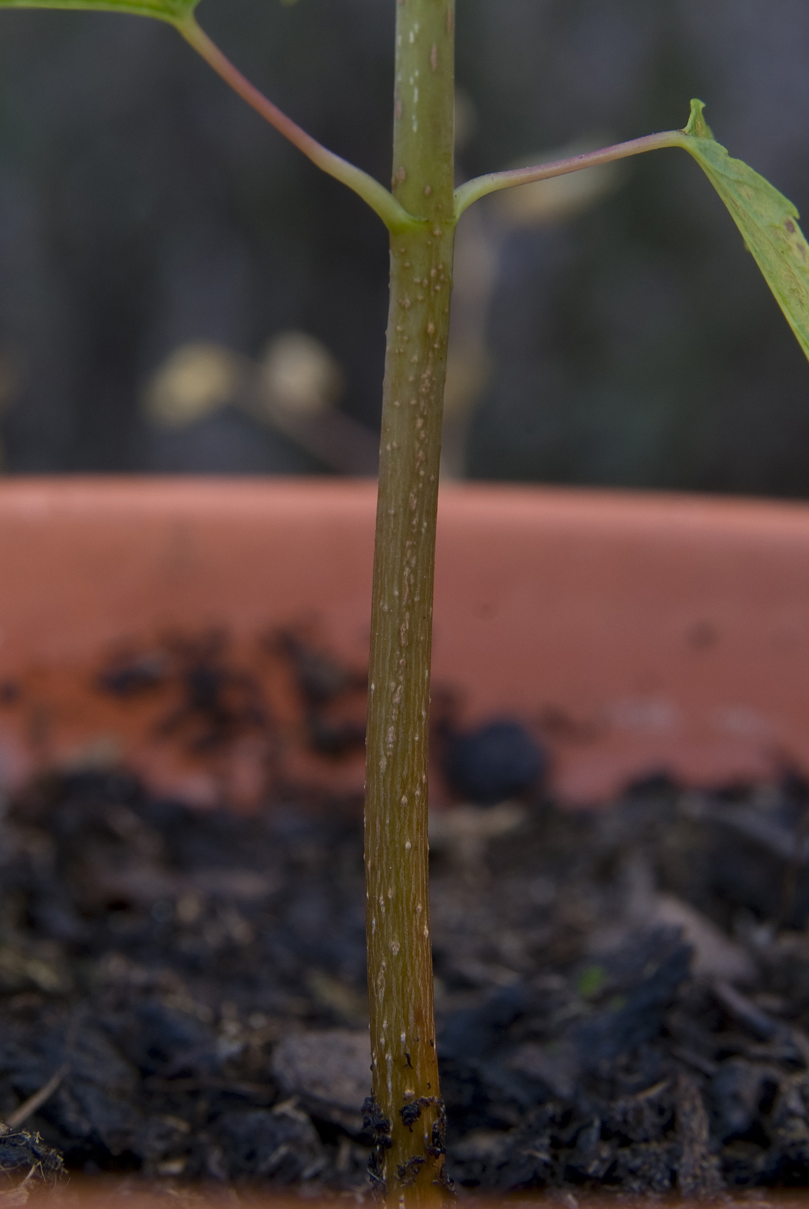 Plant stem of a very young maple (Acer).